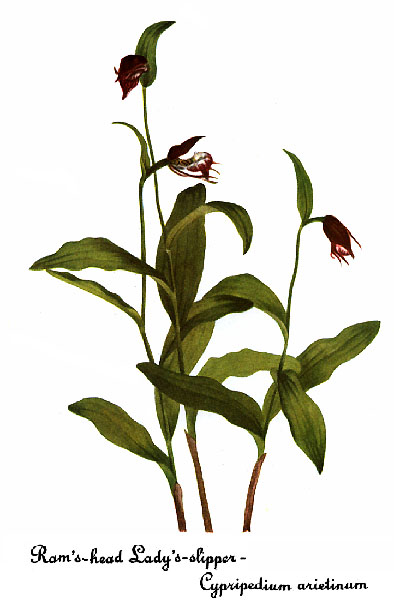 Watercolor painting of Cypripedium arietinum.